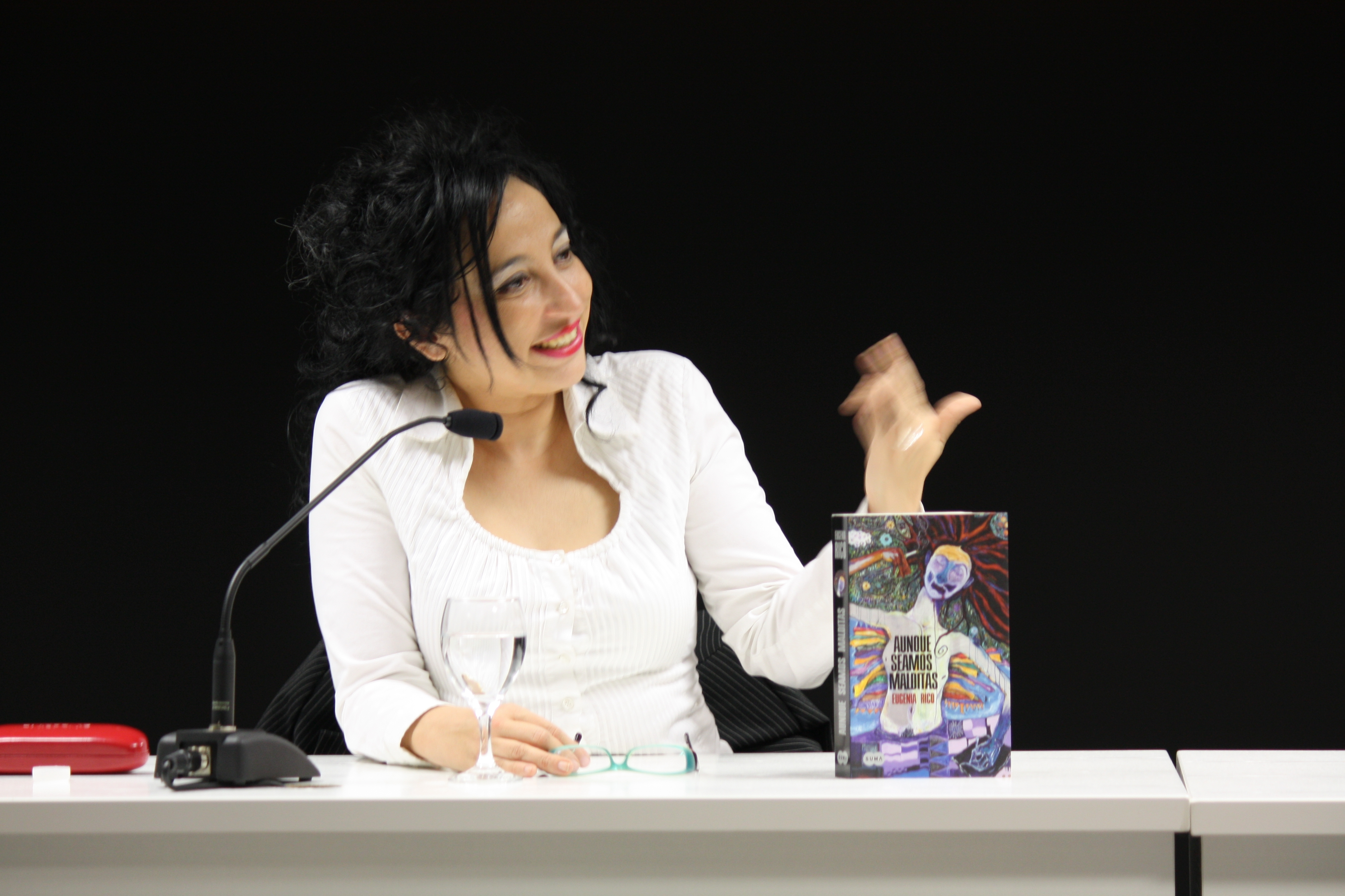 Spanish Writer Eugenia Rico at El Escorial with Bryce Echenique